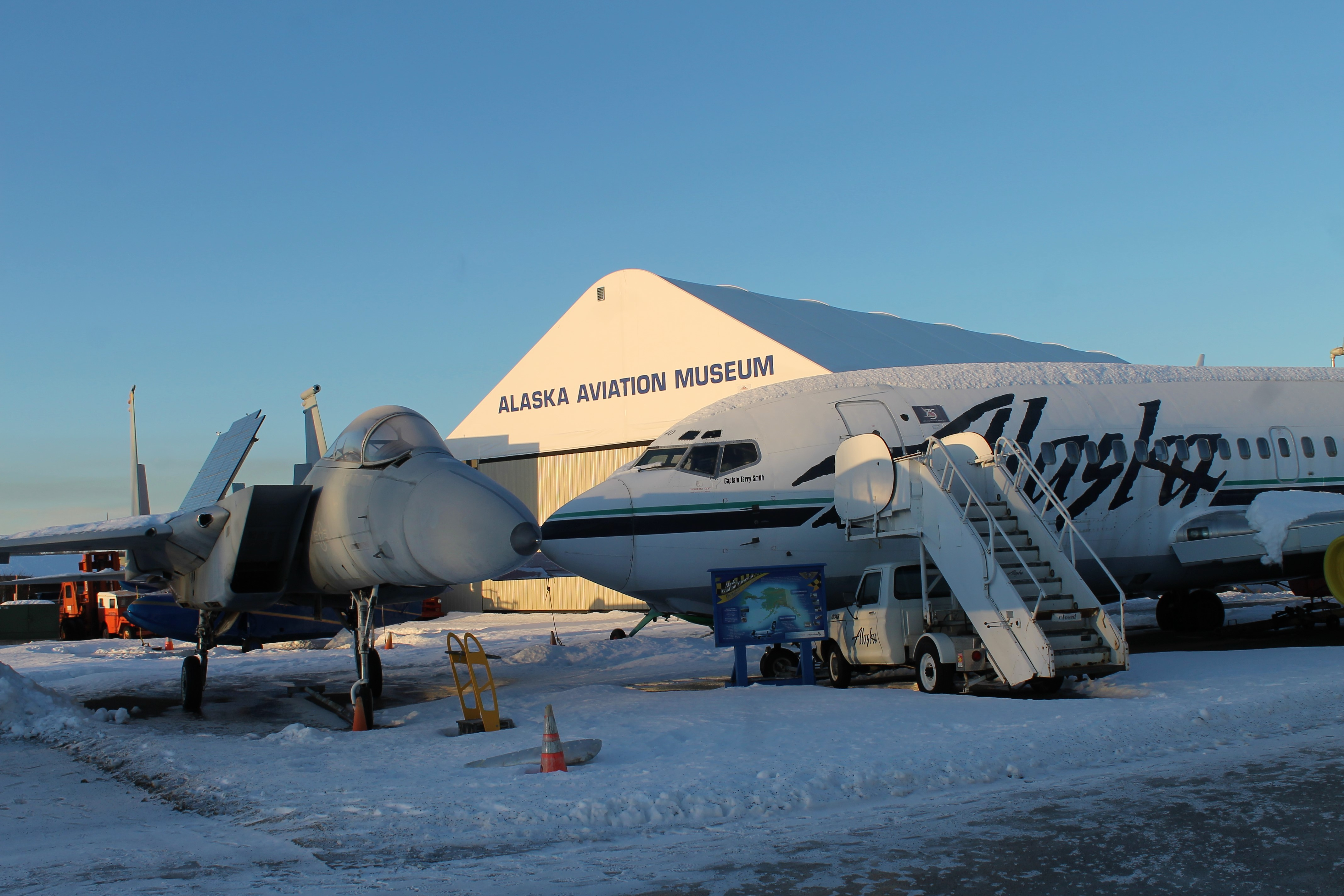 Alaska Aviation Museum in Winter, 2019.